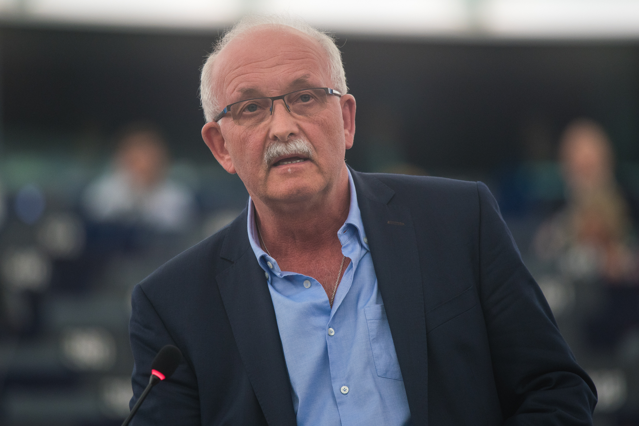 Read our Top Story about climate change here: This photo is free to use under Creative Commons license CC-BY-4.0 and must be credited: "CC-BY-4.0: © European Union 2019 – Source: EP". No model release form if applicable. For bigger HR files please contact: webcom-flickr(AT)